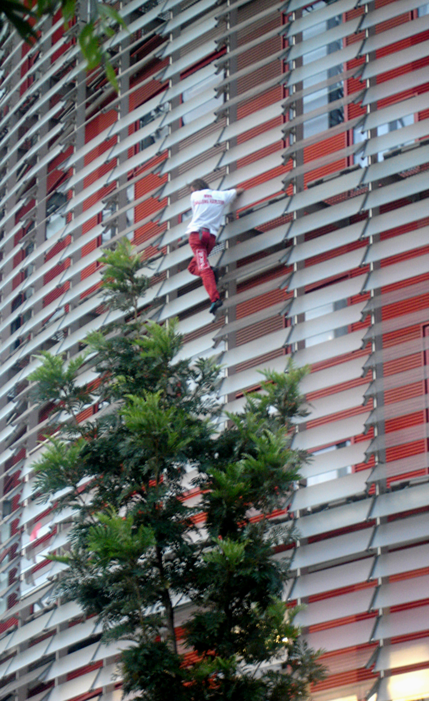 Alain Robert - Climbing the Agbar Tower (Barcelona, Spain)